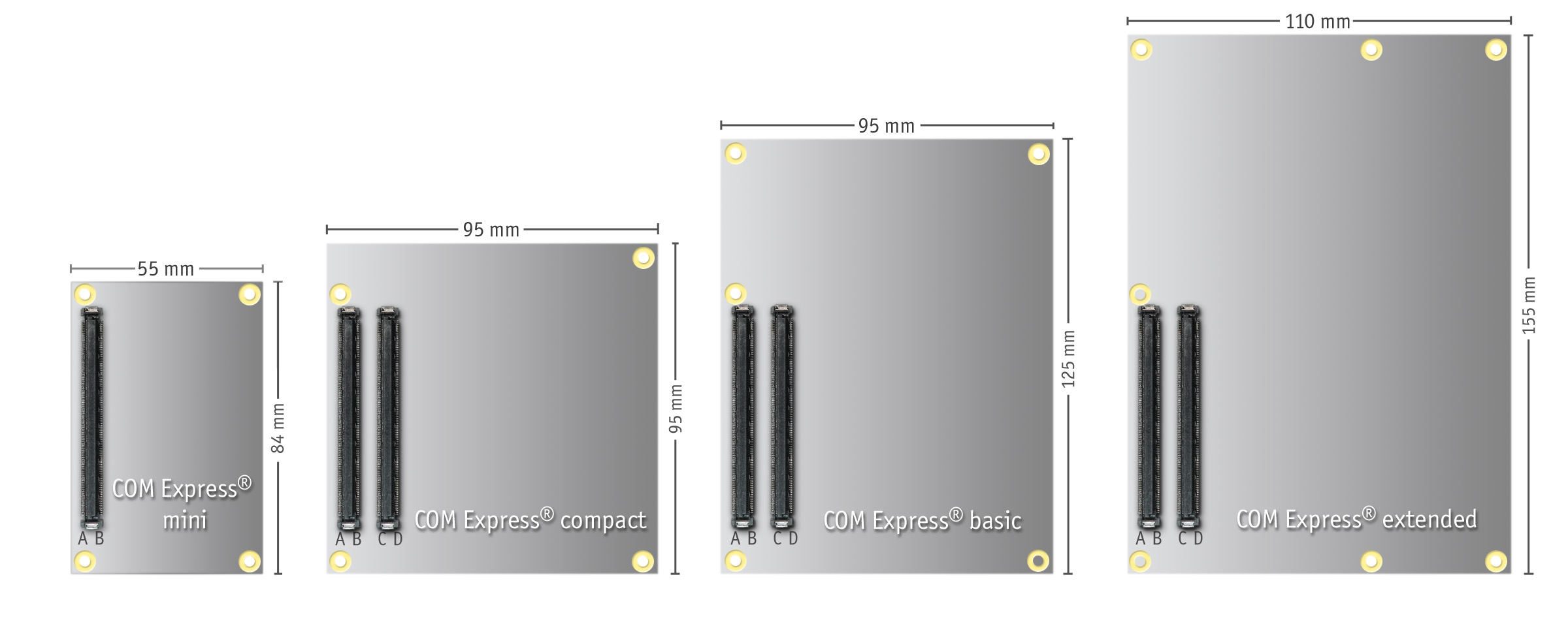 COM Express form factor comparison